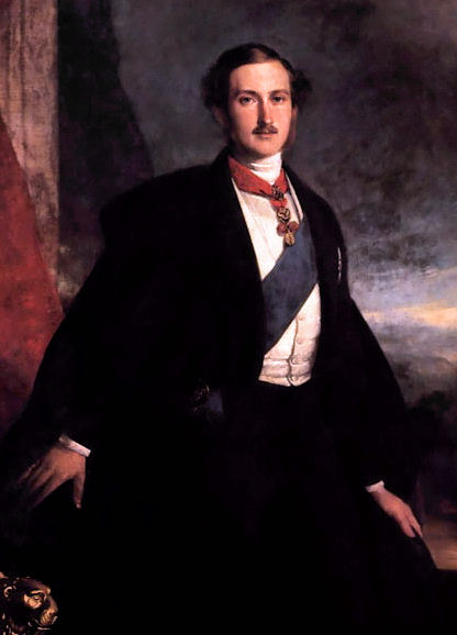 Portrait of Prince Albert of Saxe-Coburg and Gotha